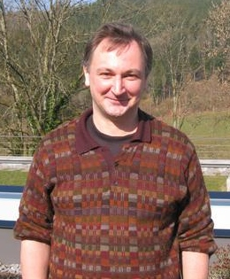 Vladimir Voevodsky at the Mini-workshop on The Homotopy Interpretation of Constructive Type Theory, Oberwolfach